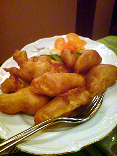 Fried Prawns